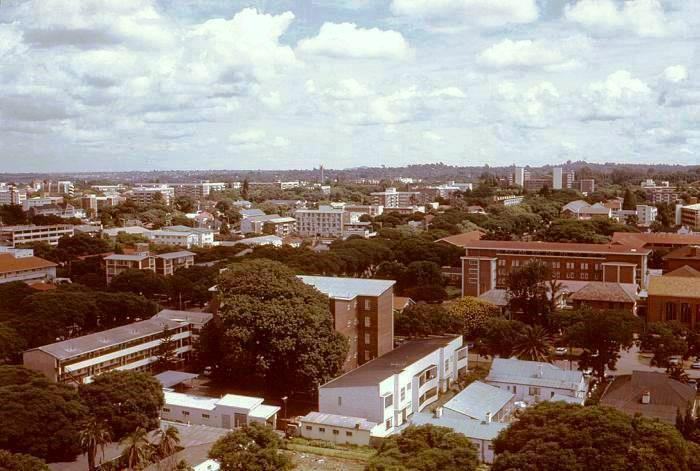 "This photo was taken during a visit to Bulawayo, Rhodesia, now Zimbabwe, by two individuals later treated for Marburg disease. This photograph was shot either February 2nd or 3rd, 1975, on the second or third night after Marburg virus patient #1 came into contact with an unknown vector."